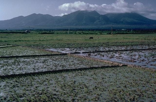 The linear Pocdol Mountains lie between Saragon Bay and the Albay Gulf in southern Luzon. This view is from the south, near the town of Sosogon. A fumarole field that contains a geyser is located near the summit. Little is known of the geologic history of the Pocdol Mountains.